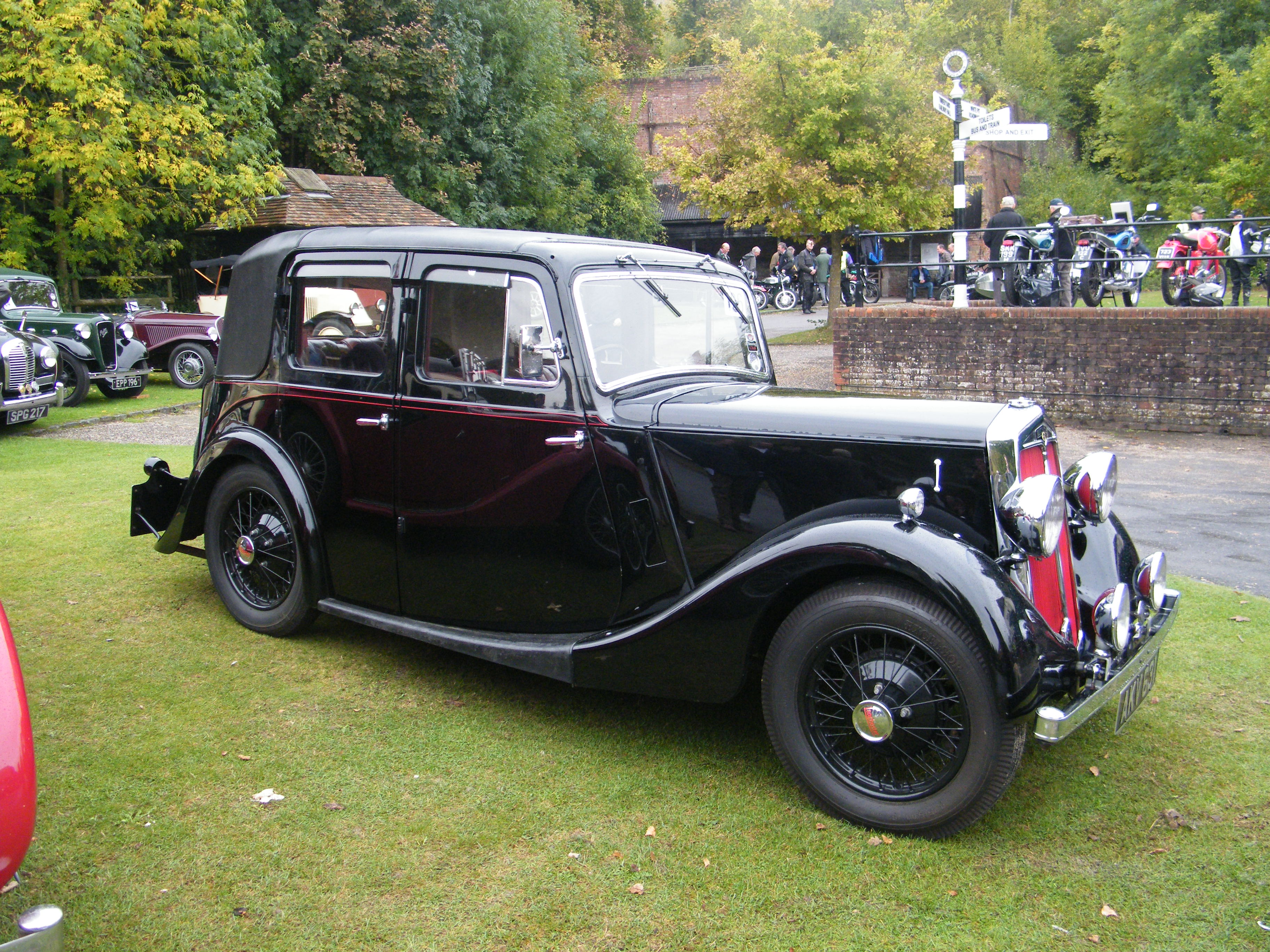 1935 Lanchester 12-6 Sports Saloon Amberley Museum and Heritage Centre